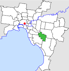 Location of the City of Oakleigh within Melbourne.